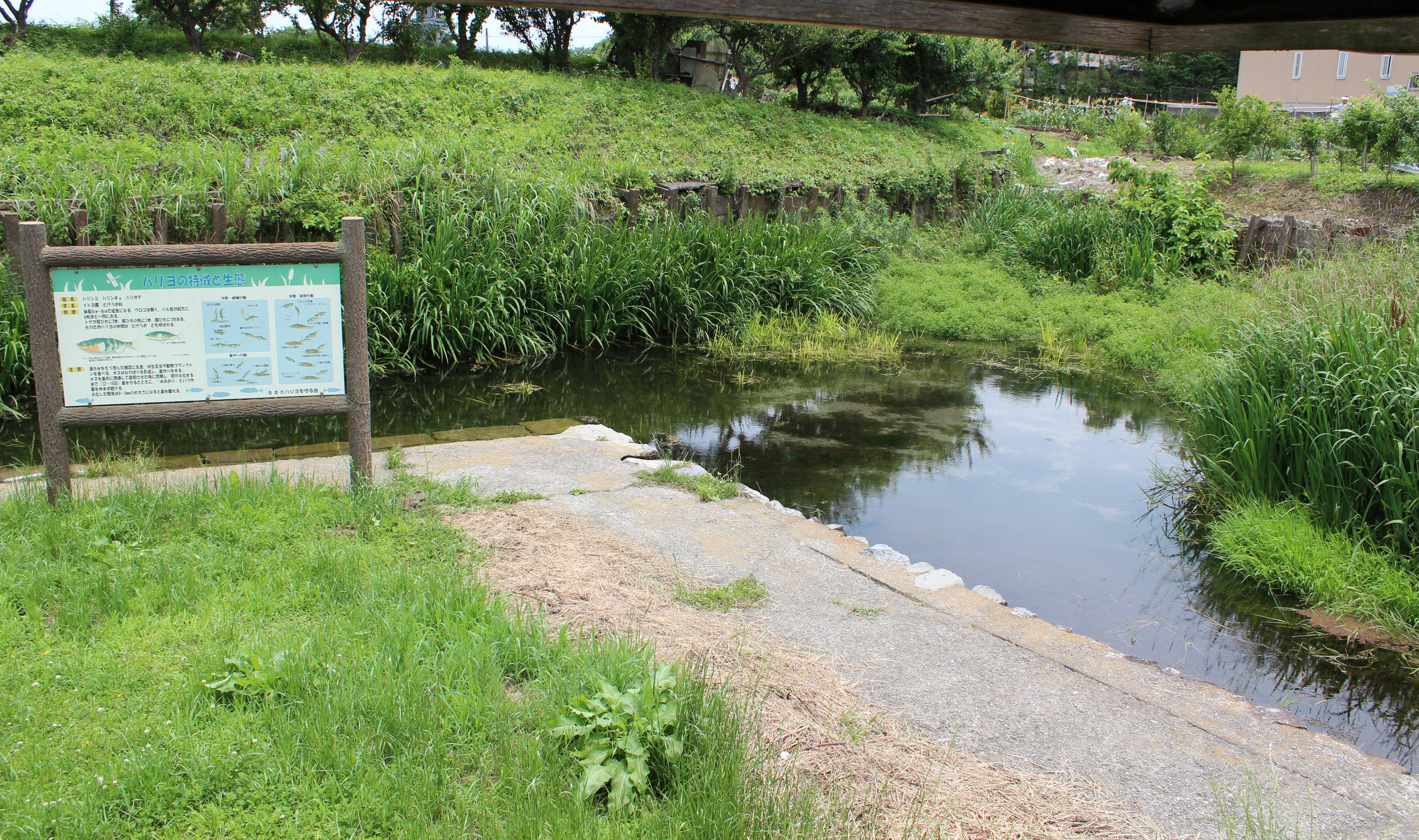 Shimizu Pond of Tsuya River in Kaizu, Gifu prefecture, Japan.